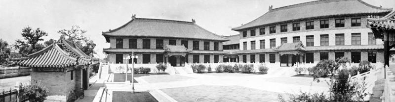 Nord-China, Prov. Chihli, Peking, Rodfeller Institut Peking Union Medical College